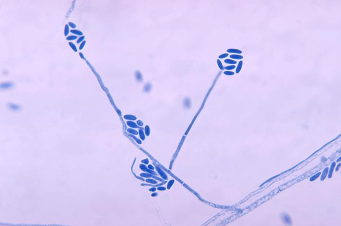 ID#: 4168 Description: This photomicrograph shows conidia and conidiophores of the fungus Acremonium falciforme. Members of the genus Acremonium are filamentous fungi commonly isolated from plant debris and soil. Acremonium spp. are causative agents of eumycotic “white grain” mycetoma. Content Providers(s): CDC Creation Date: 1970 Copyright Restrictions: None - This image is in the public domain and thus free of any copyright restrictions. As a matter of courtesy we request that the content provider be credited and notified in any public or private usage of this image.